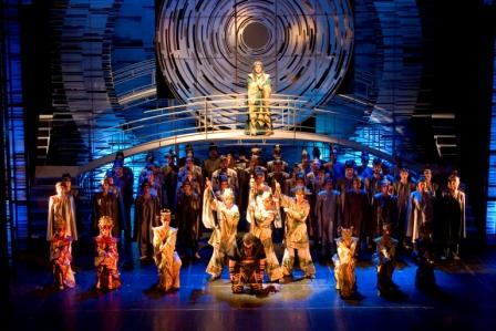 OFD-Rousse, July 2006.